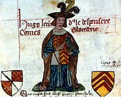 Hugh le Despenser the younger as comes gloestrie (Earl of Gloucester). Illumination from the „Founders' and benefectors' book“ of Tewkesbury Abbey, Bodleian Library Oxford, MS. Top. Glouc. d.2, fol. 21r